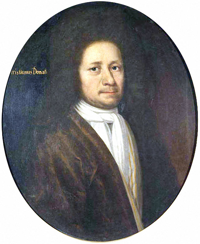 Christian Donati (1640-1694) german Logician